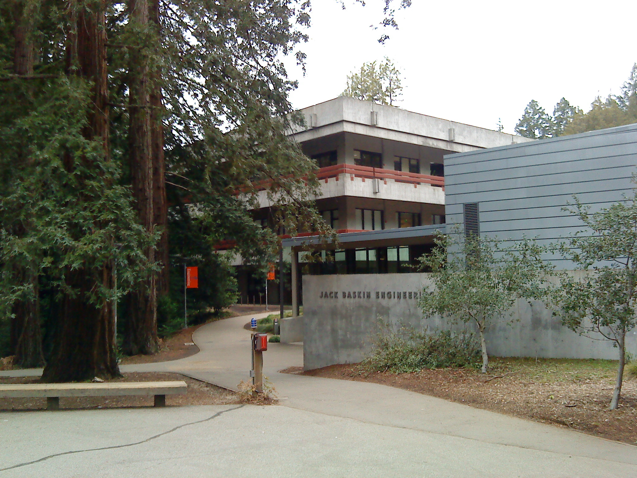 Baskin Engineering at the University of California, Santa Cruz. Engineering 1 is visible to the left, and the Auditorium can be seen to the right